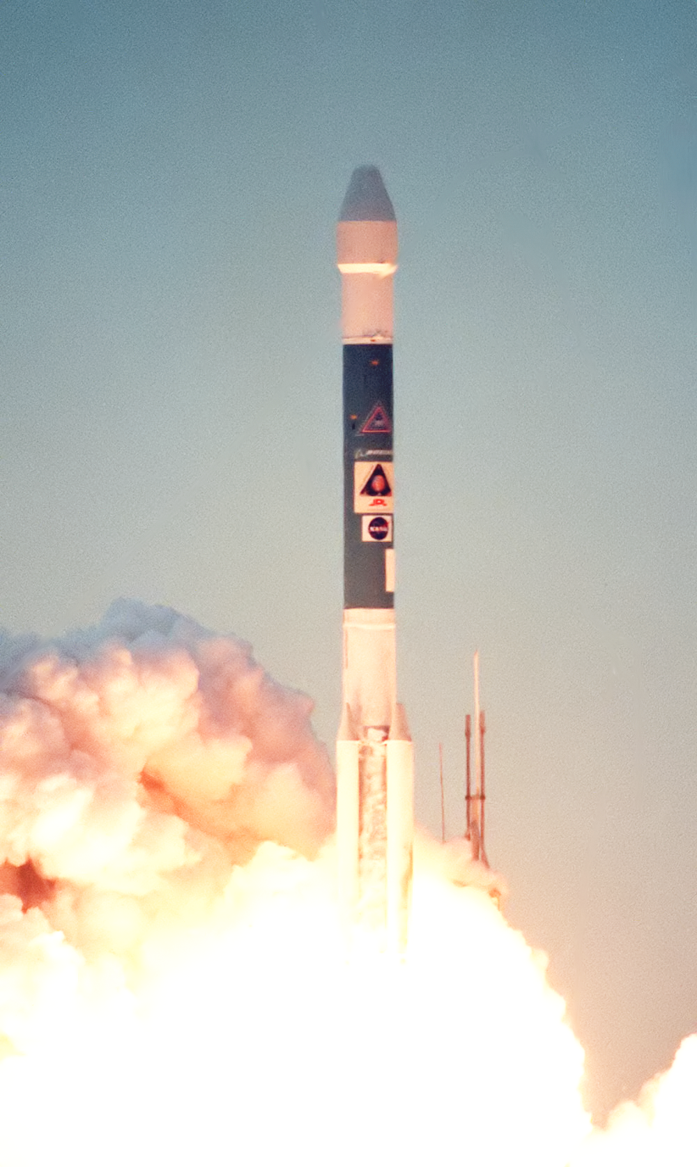 Launch photo of the Mars Polar Lander spacecraft aboard a Delta II rocket lifting off from Launch Complex 17A.